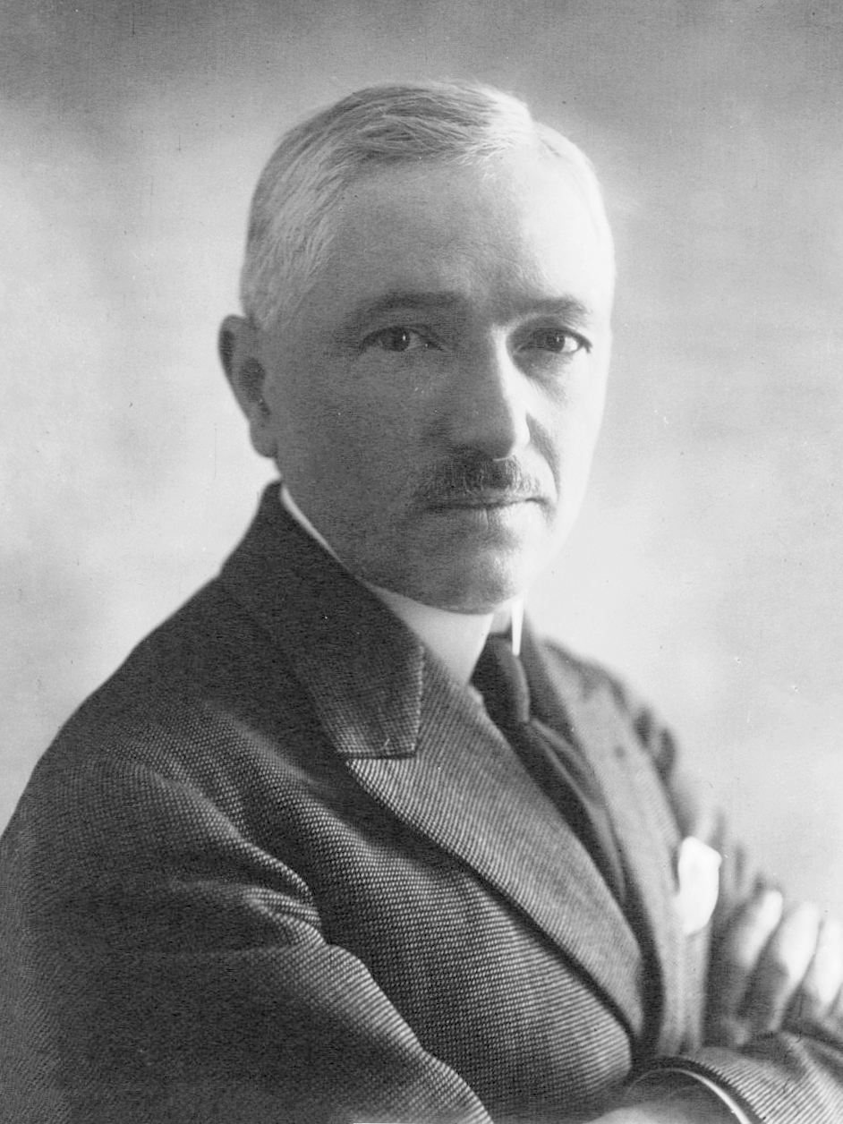 Portrait of Jules Rimet, FIFA president (1921-1954).